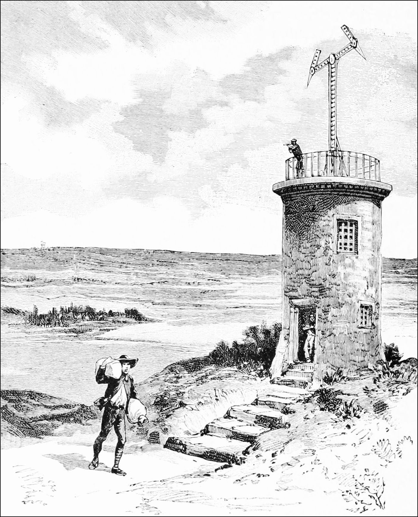 Aerial telegraphy 1793